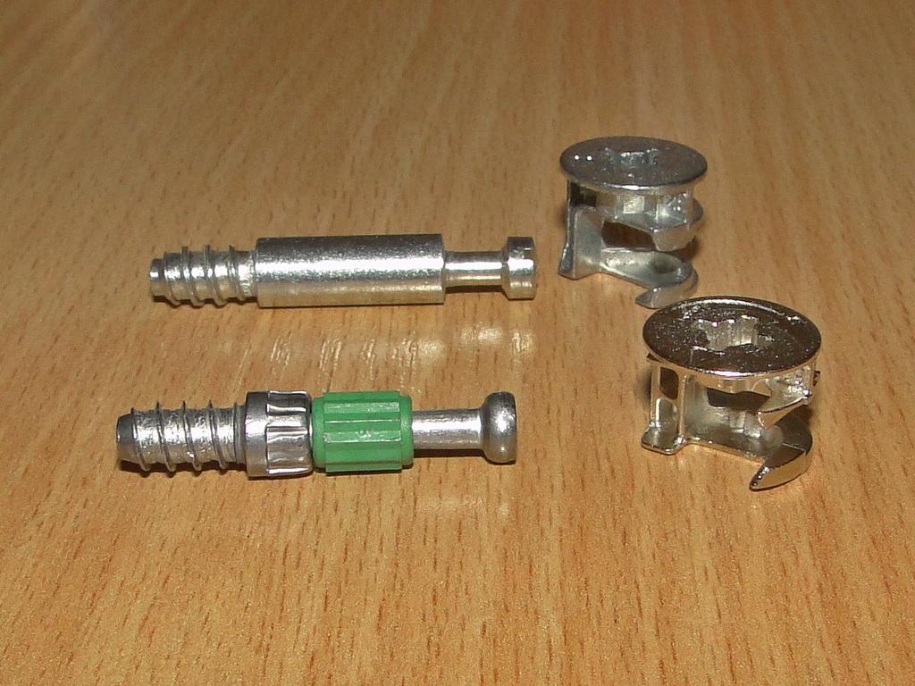 two eccentric fasteners of two different producers and varied length